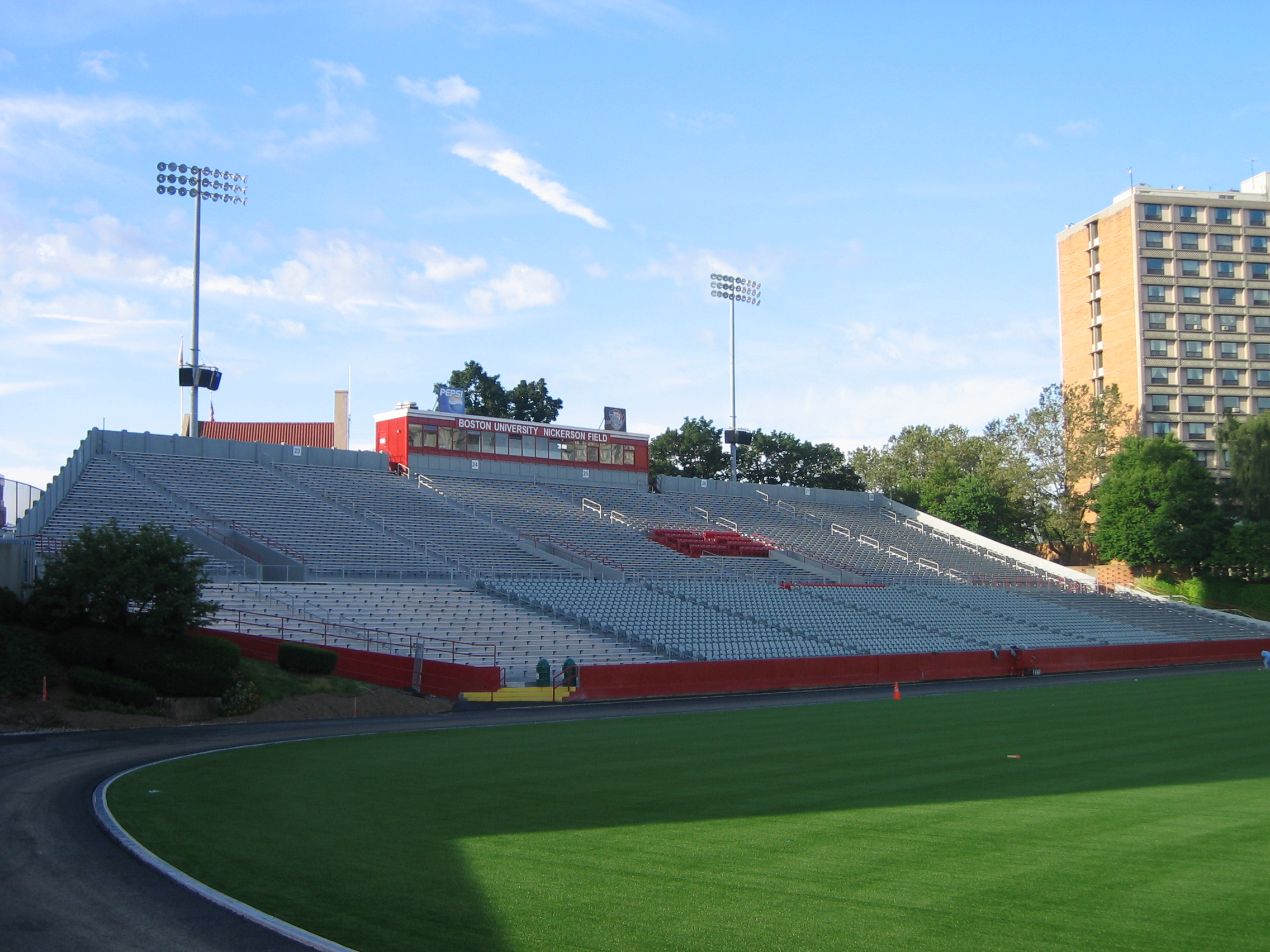 Football & Basketball Facilities Boston U Stadium, part of old Boston Braves Park